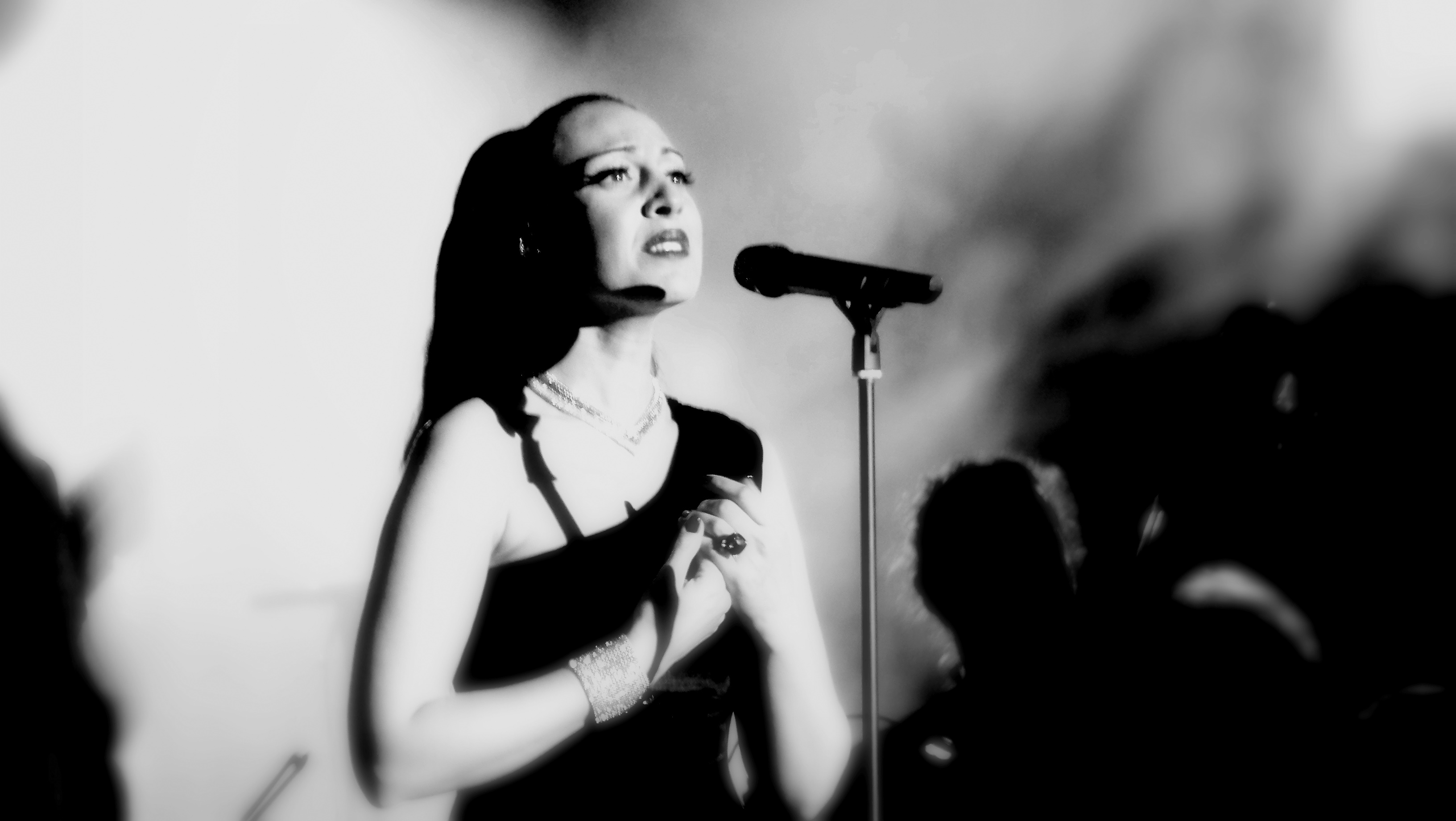 Monica Naranjo actuando en directo en el Teatro Romano de Merida durante la tercera fase de su gira "Adagio Tour" el 11 de Junio de 2010